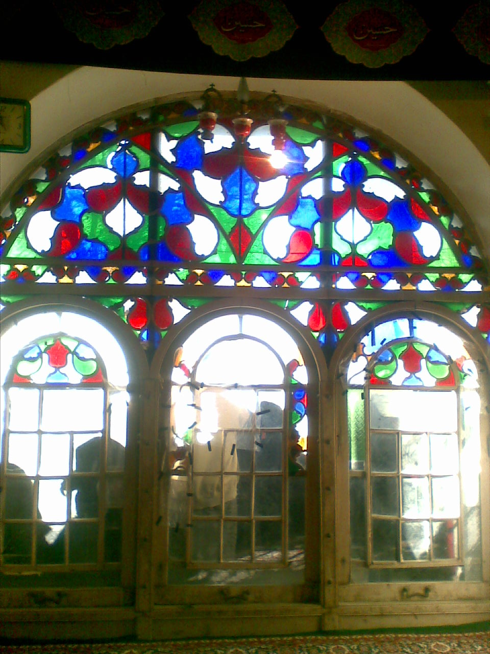 Hoseinye Avarzaman 02